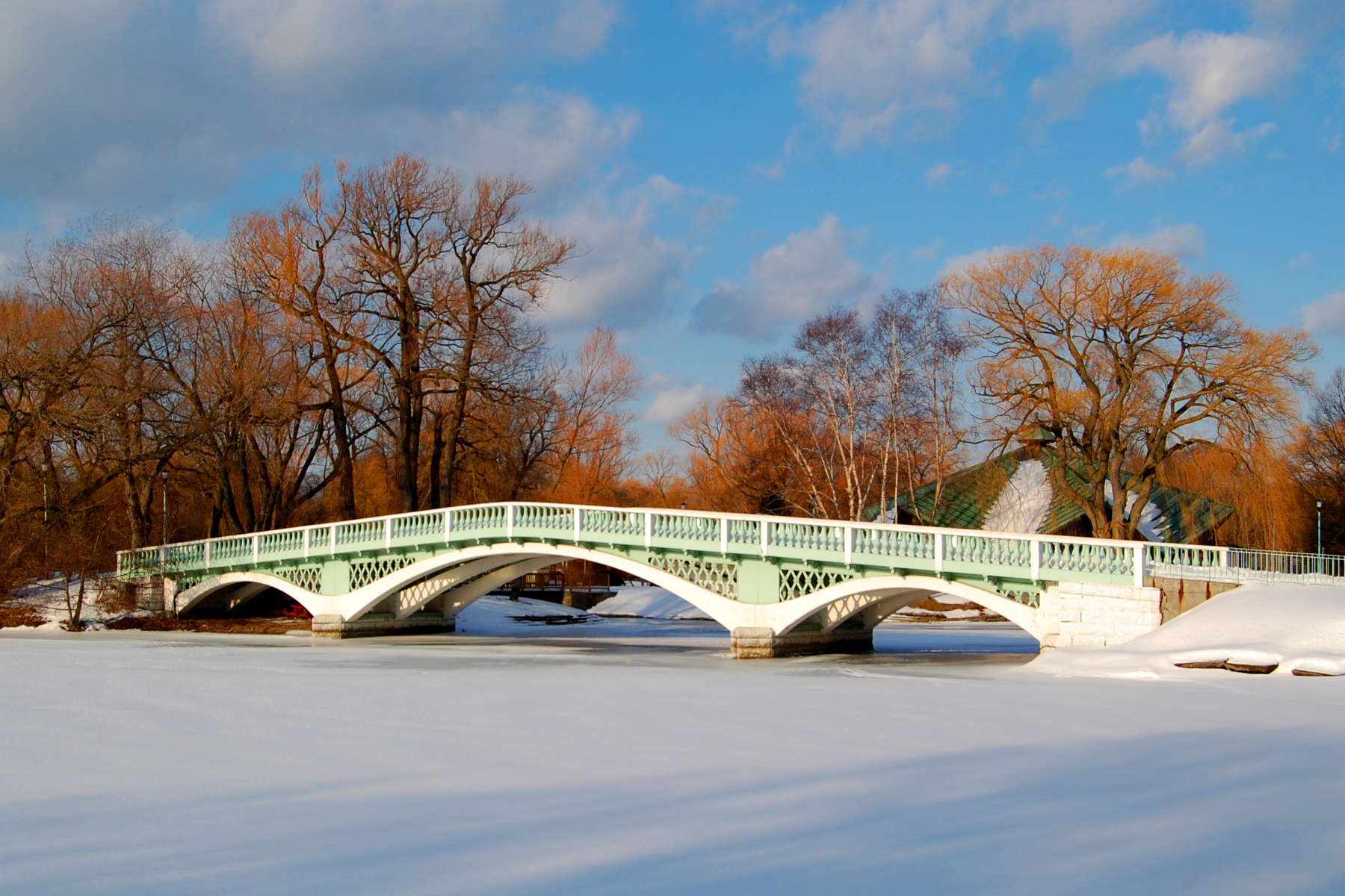 Shot during TPMGs outing to the Toronto Islands.